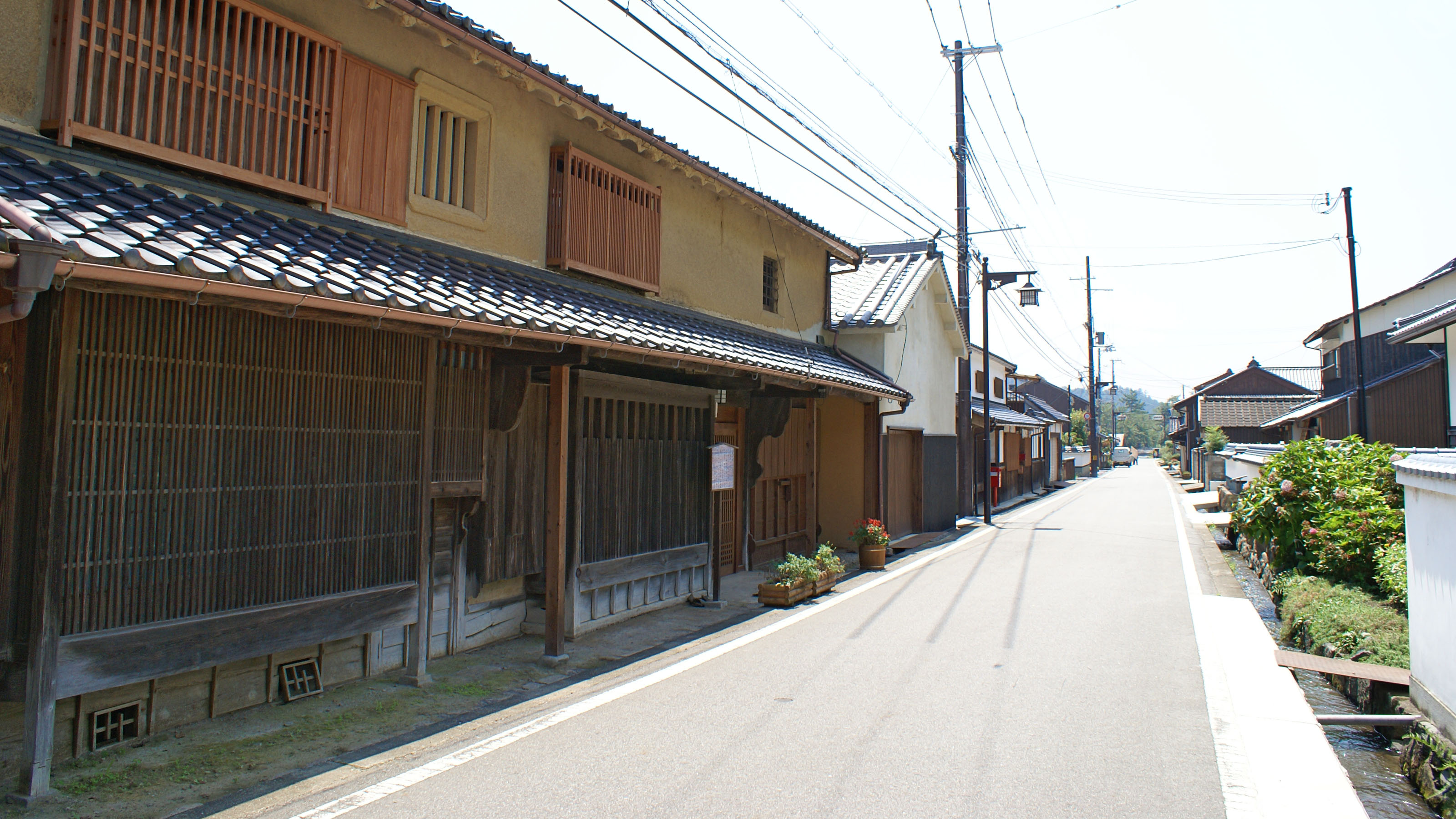 Scenery of Hirafuku in Sayo, Hyogo, Japan